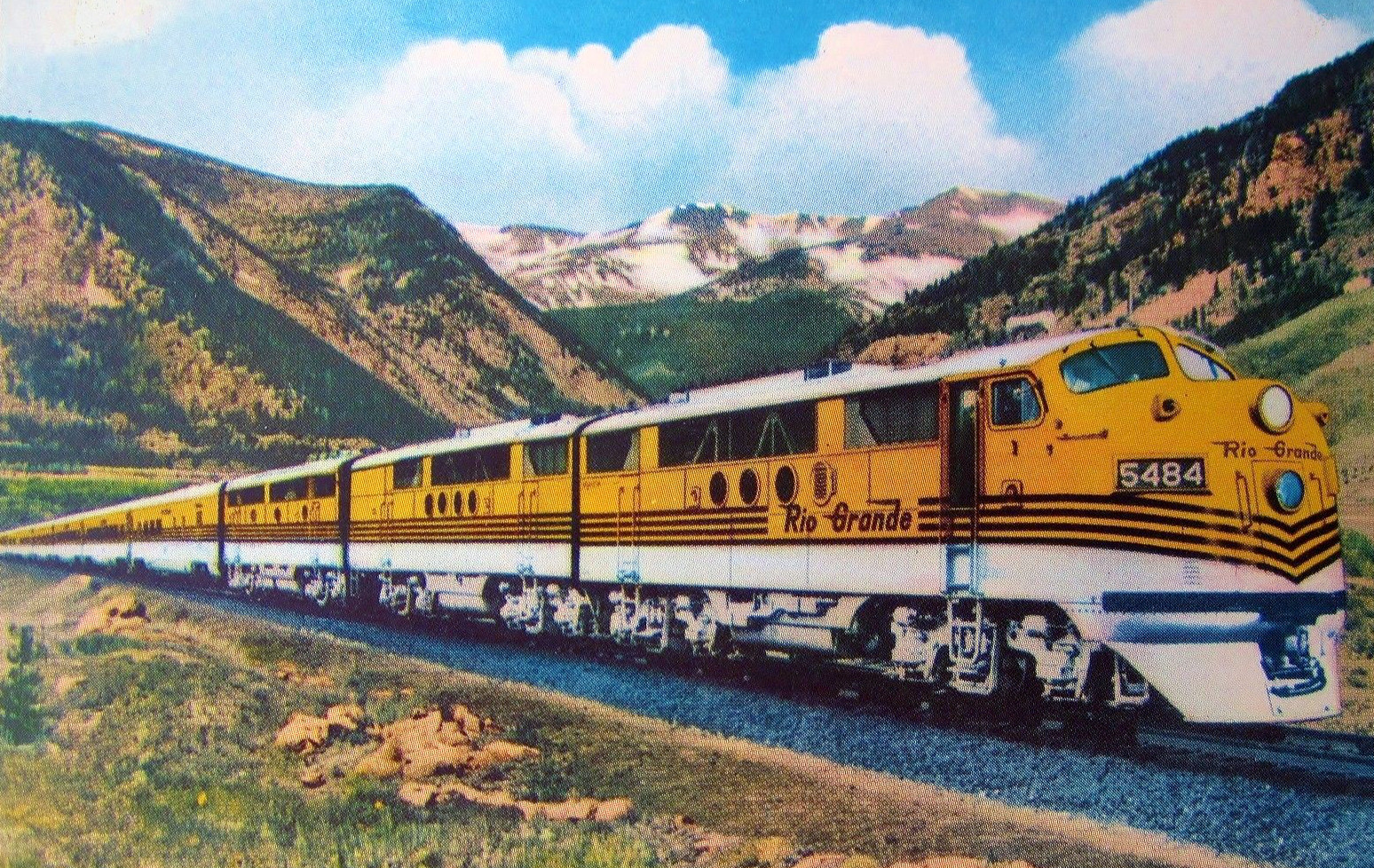 Postcard depiction of the Denver and Rio Grande Railroad train "The Prospector" which traveled from Salt Lake City to Denver.